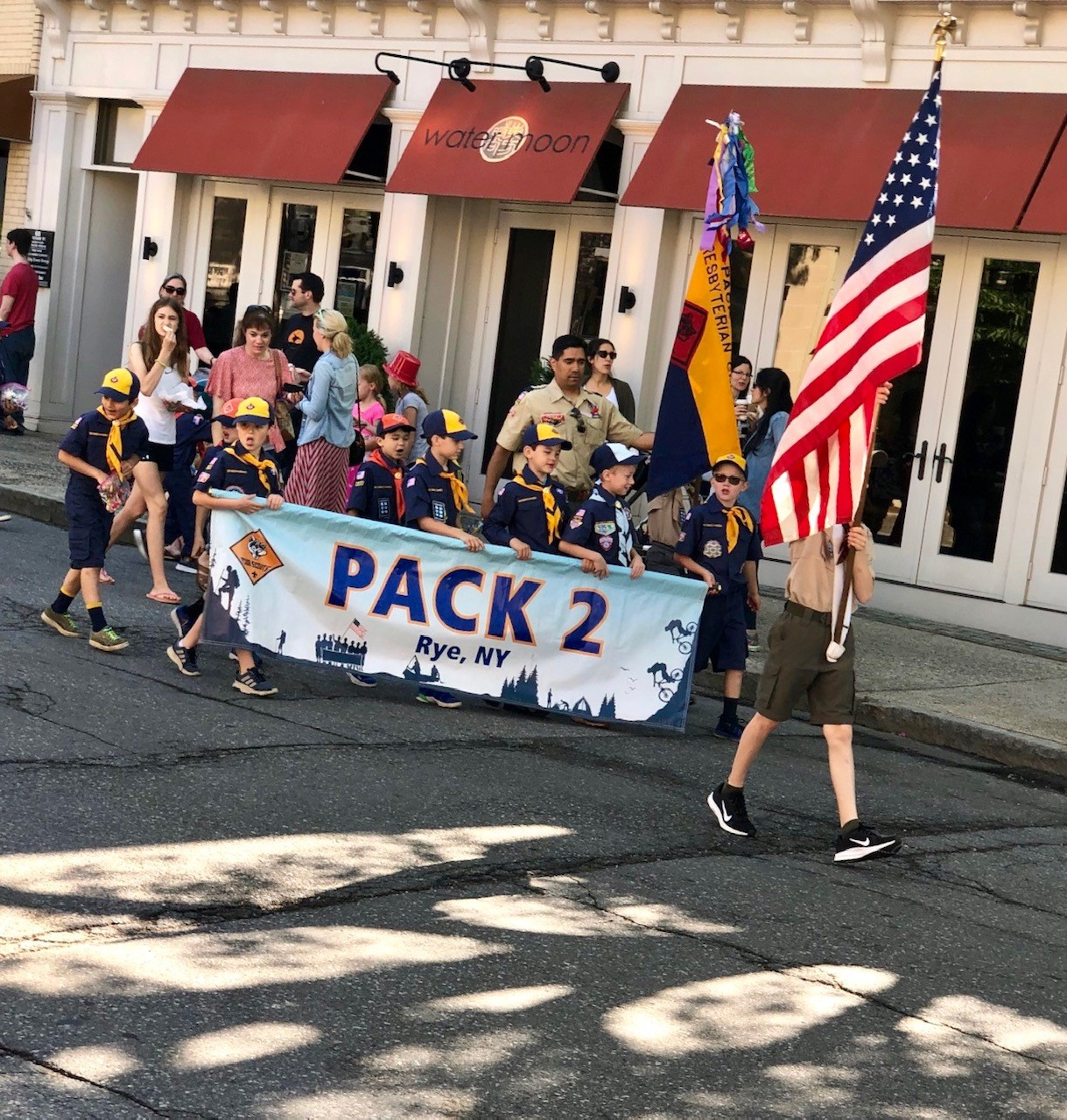 Memorial Day Parade, Rye, NY - Boy Scouts